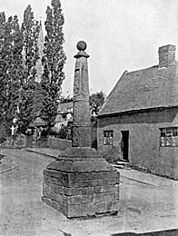 Anglo-Saxon cross in St Helen's parish churchyard, Stapleford, Nottinghamshire, photographed in 1906 and published in the Transactions of the Thoroton Society, 10 (1906).